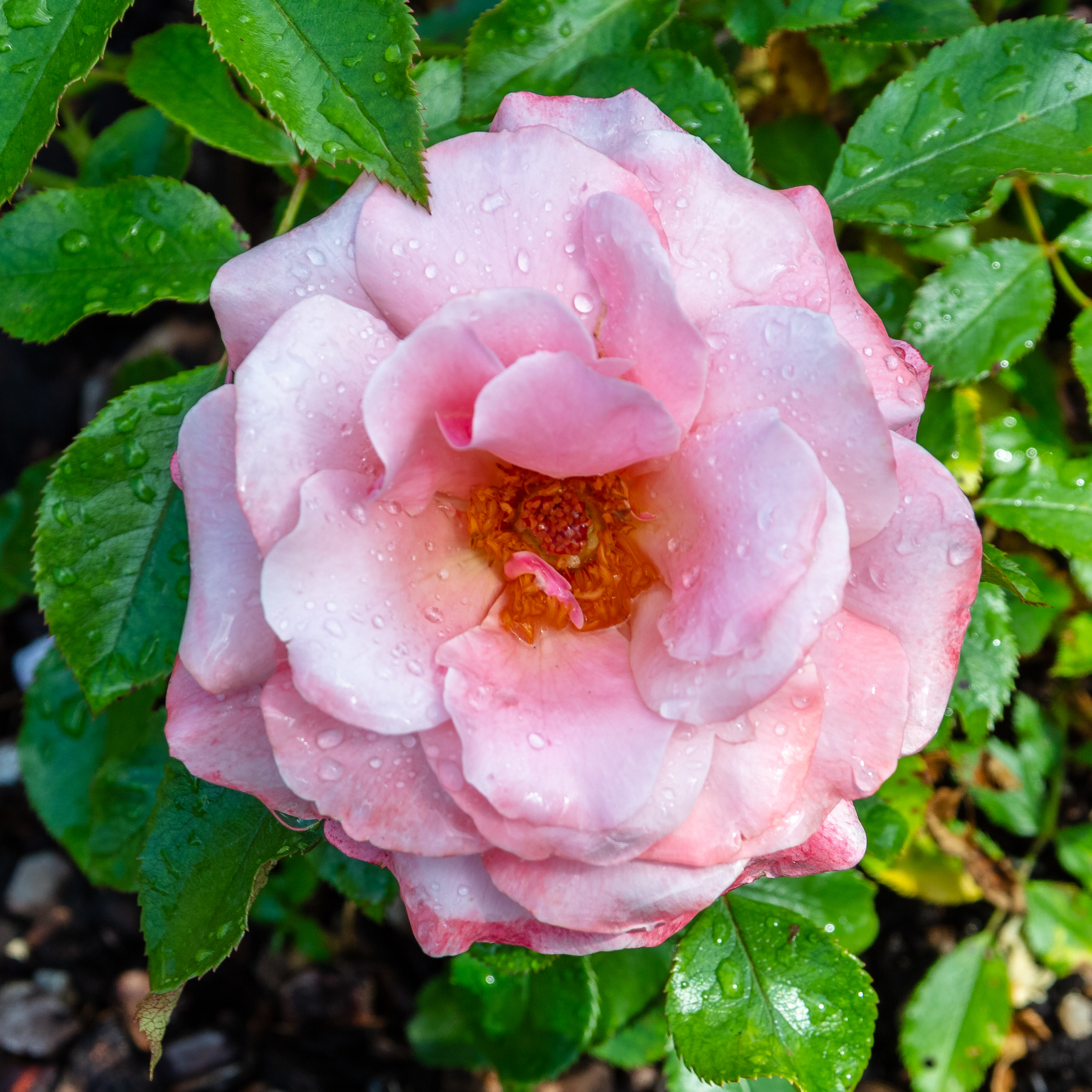 'Botticelli' Rose, Bad Wörishofen, Germany